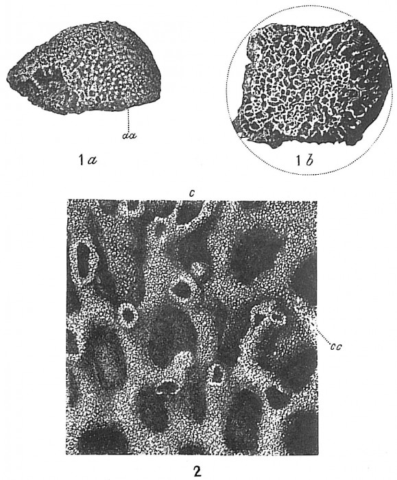 Image source: Cushman, J.A. 1918. The Foraminifera of the Atlantic Ocean. Part I. Astrorhizidae. Bull. U.S. Natl. Mus. 104.